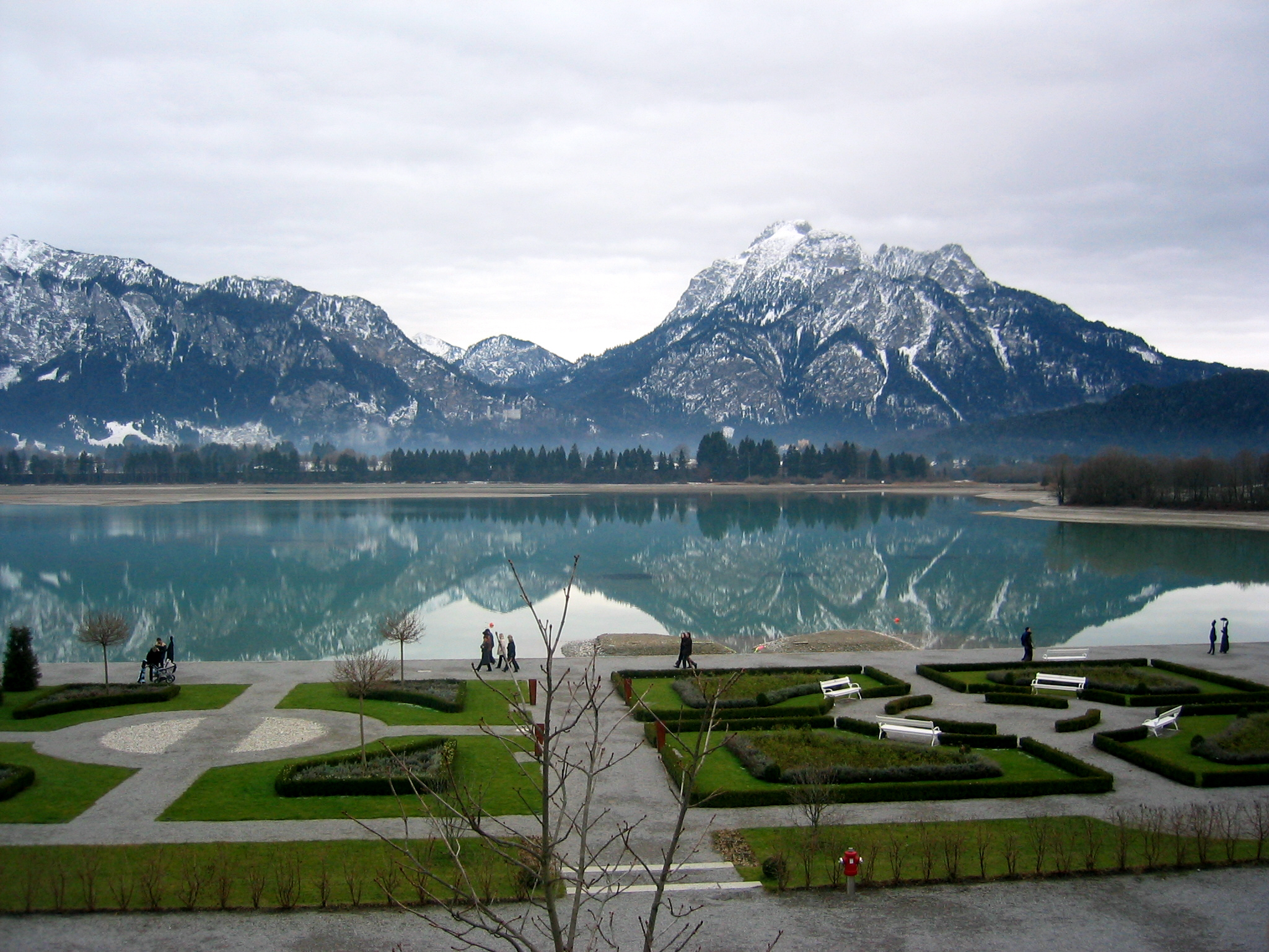 Füssen, Germany: Musical Theater Neuschwanstein, view from the theatre terrace over the theatre gardens to Schloss Neuschwanstein on the opposite shore of Lake Forggensee. In the background (from left to right): Branderschrofen (1881 m), Tegelbergkopf (1567 m), Schlagstein (1880 m), Säuling (2048 m) and Pilgerschrofen (1769 m) in the Mountain Range of the Ammergauer Alpen.